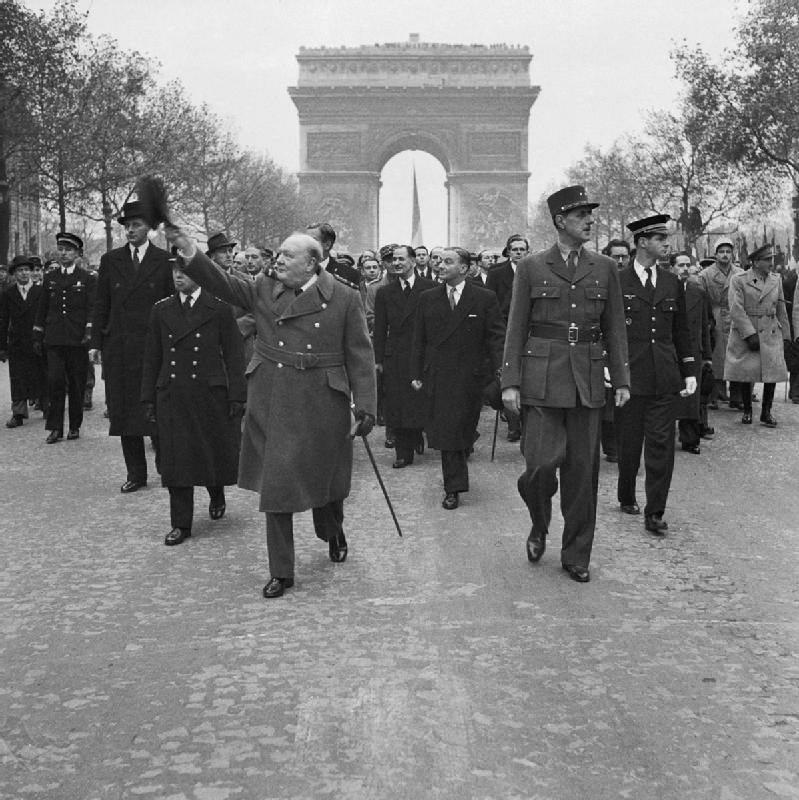 Winston Churchill and General Charles de Gaulle walk down the Avenue des Champs-Elysee duirng the French Armistice Day parade in Paris, 11 November 1944. North West Europe 1944 - 1945: Winston Churchill and General Charles de Gaulle at the French armistice day parade in Paris.